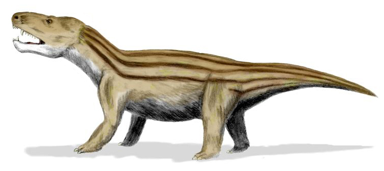 Cynognathus, a cynodont from the Triassic of South Africa, pencil drawing